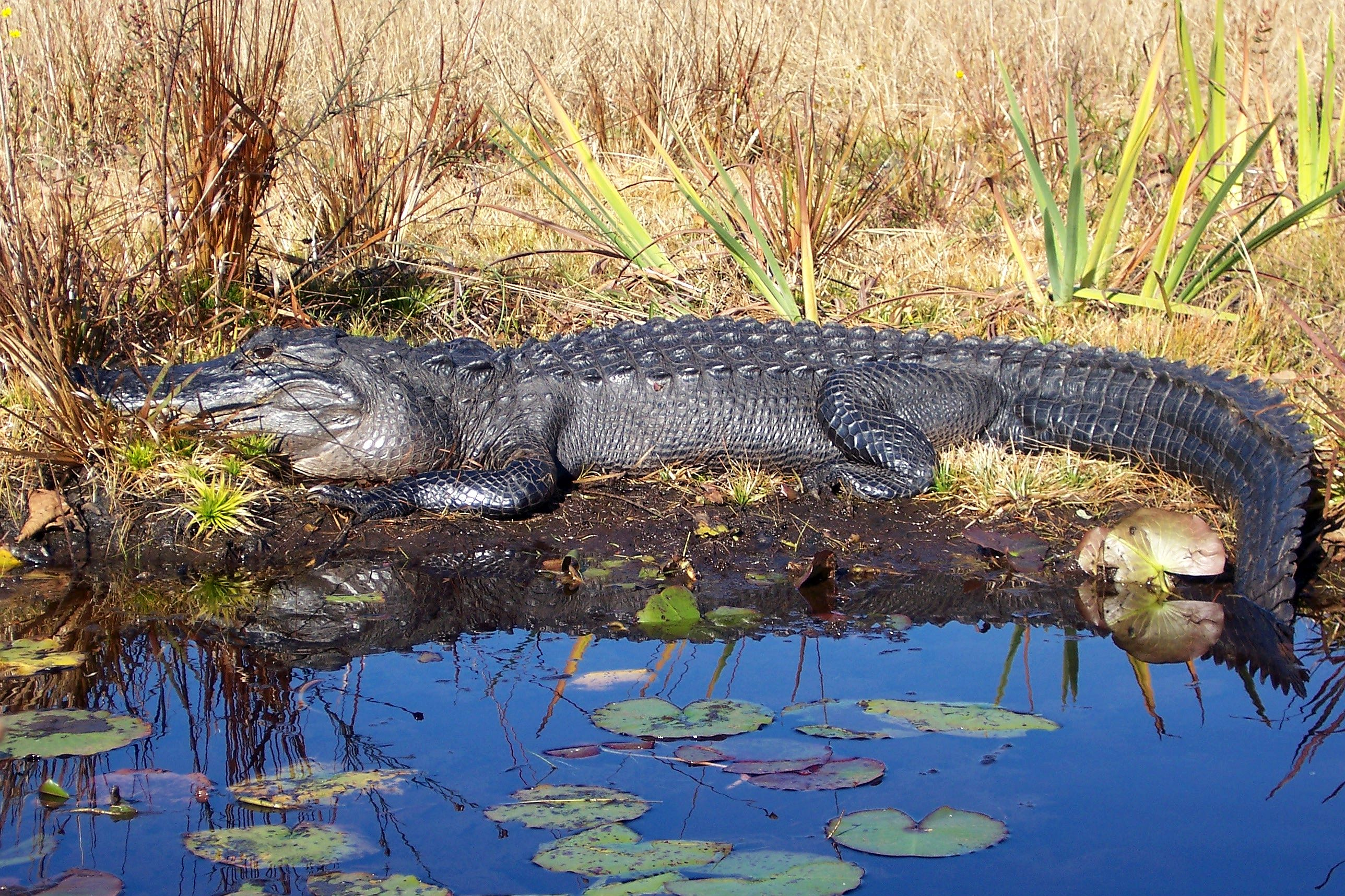 Alligator in Okefenokee National Wildlife Refuge wilderness, GA. Credit: Stacy Shelton/USFWS